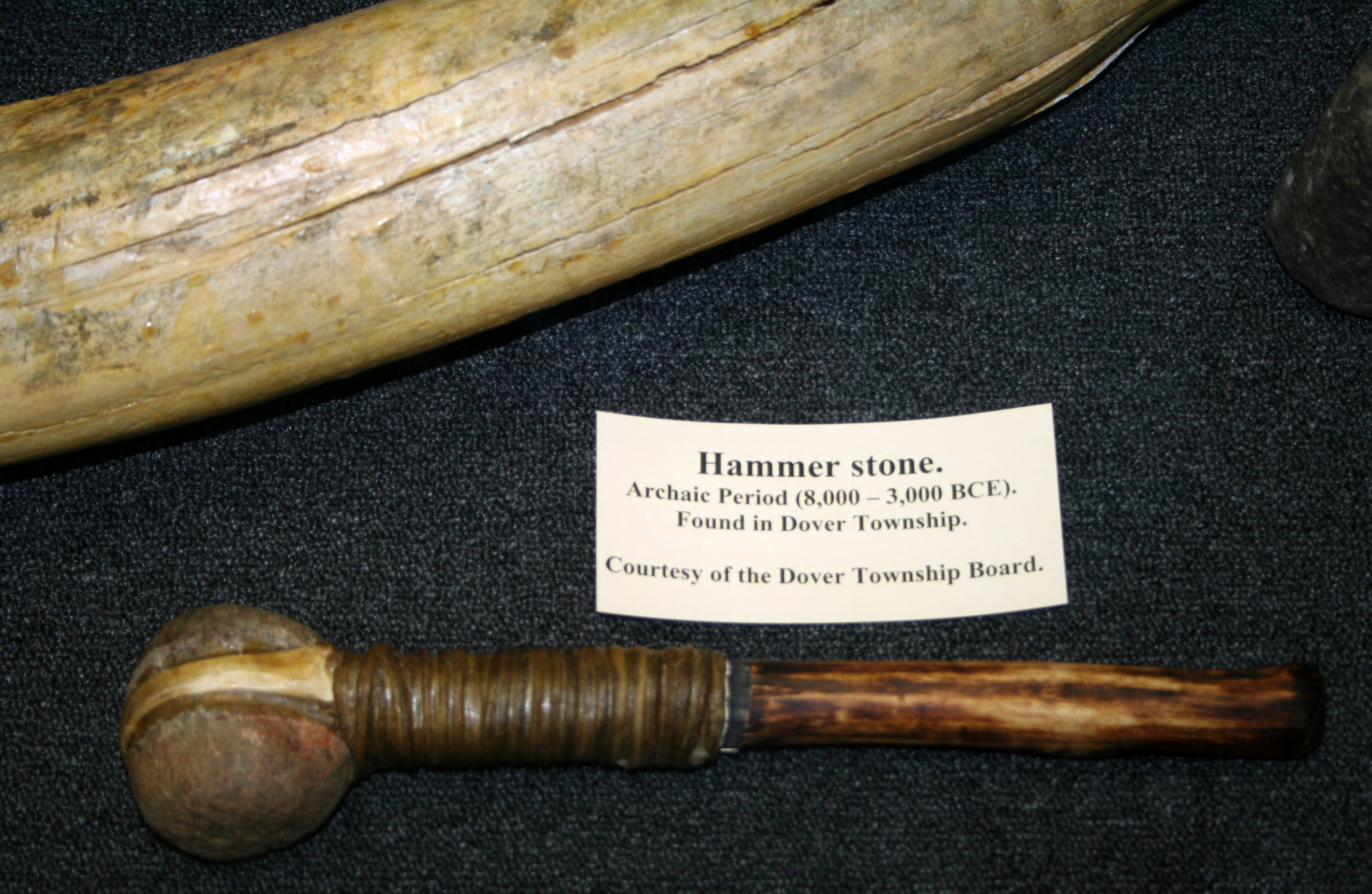 Stone hammer next to a mammoth tusk at the Olmsted County Historical Society Museum in Rochester, Minnesota.